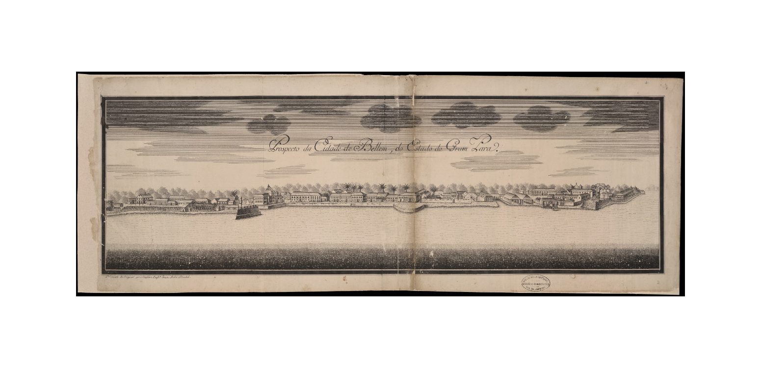 View of the city of Bellem (Belém), State of Gram Pará. In the Collection from the prospects of the villages, and more remarkable places that are found on the map that the engineers created on expedition starting from the city of Pará to the village of Mariua in the Rio Negro, 1756. Drawing in Indian ink by João André (Johann Andreas) Schwebel. He was a German military engineer and was hired by the Portuguese Crown to be part of the Commission of border demarcations in the northern region of Brazil according to the Treaty of Madrid (1750). The Portuguese commission stayed for five years conducting surveying and hydrographic services in this region. This view, together with the others in this group, constitute an iconographic collection of the region between Belém and Barcelos during the colonial period. Collection of the Biblioteca Nacional do Brasil.